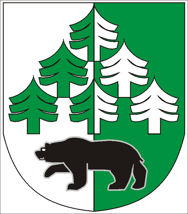 Coat of arms of Oravská Polhora